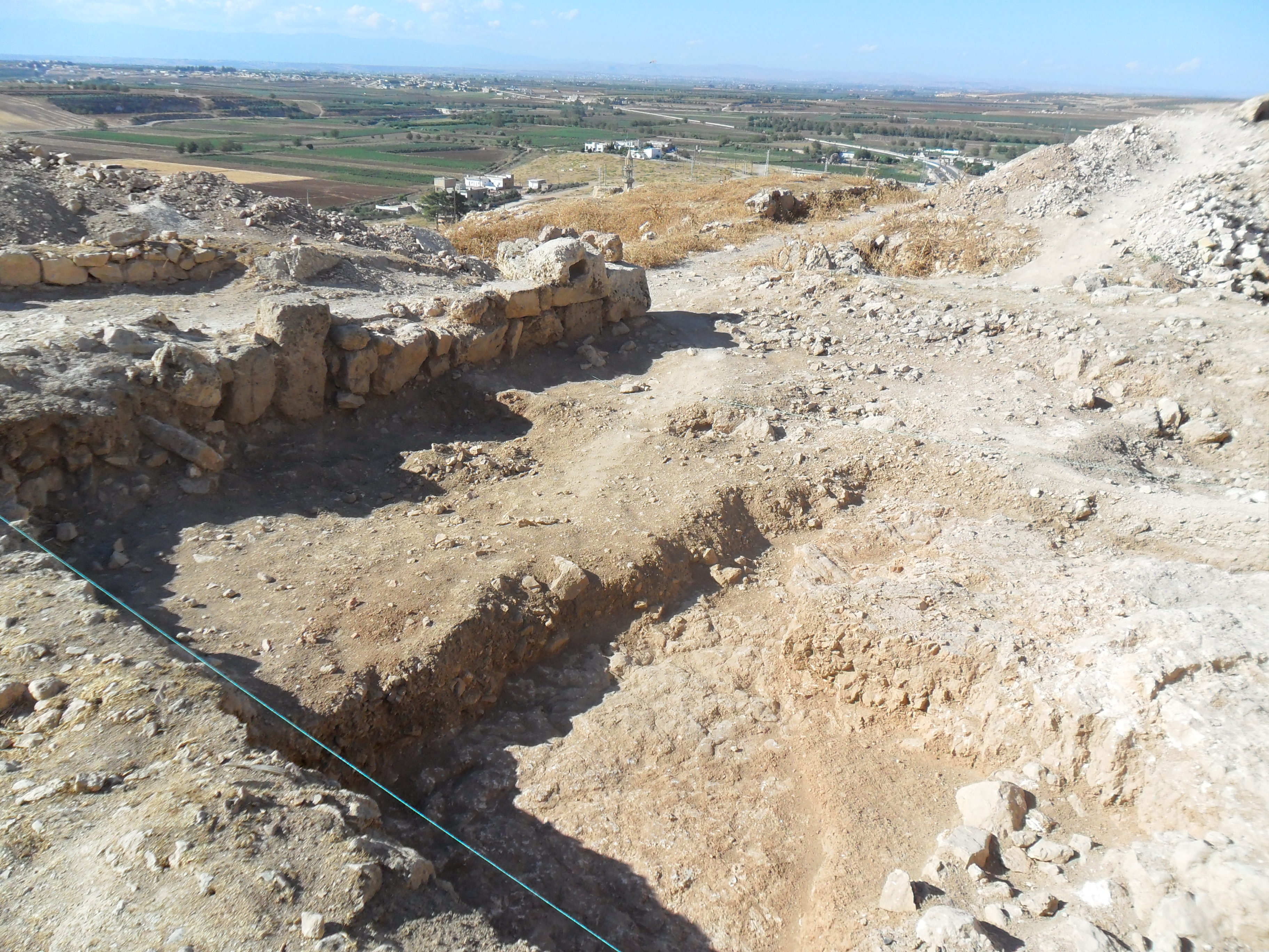 Archaeological excavation in the fortress of Shayzar, Syria; belonging to the southern part in front of the palas-tower.